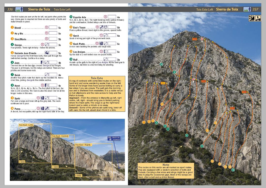 This is a Topo image of cliff "Toix Est" in the Costa Blanca region of Spain. The topo shows the names, grades and lines of the various rock climbs plus extra information such as parking, approach times, sun or shade and style of climbing - powerful, sustained etc